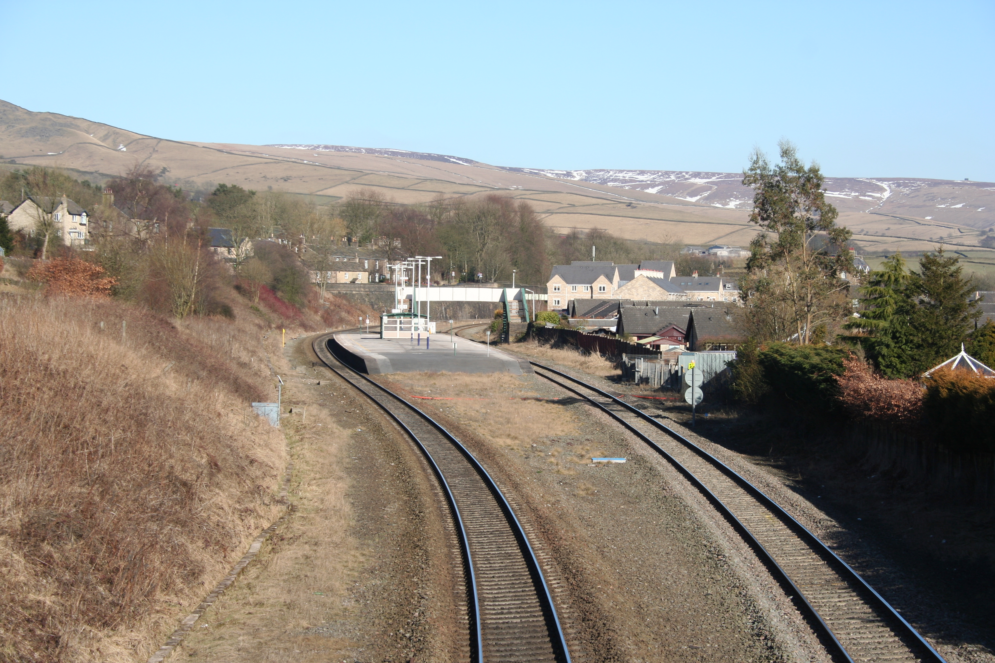 Chinley Railway Station, Derbyshire